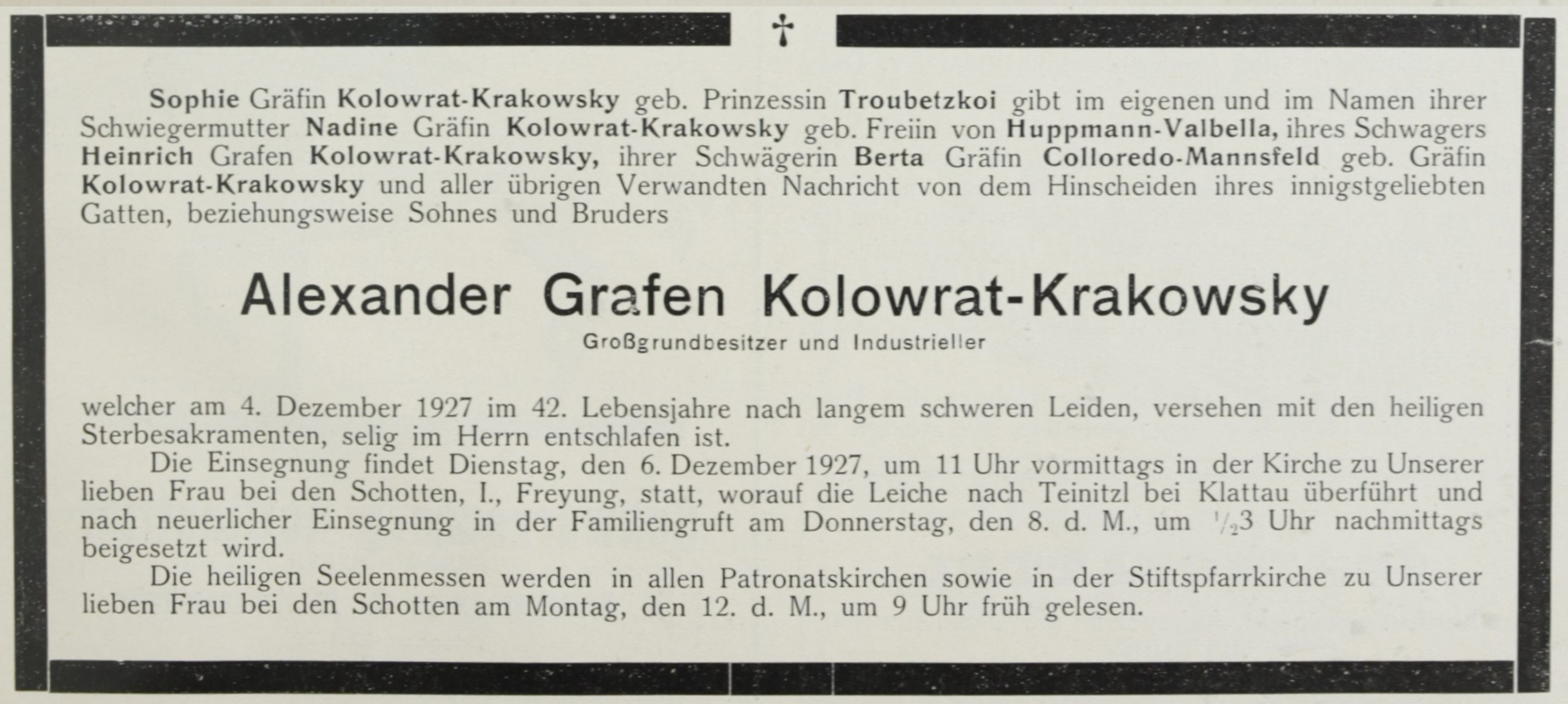 Death notice of Count Alexander Kolowrat-Krakowsky